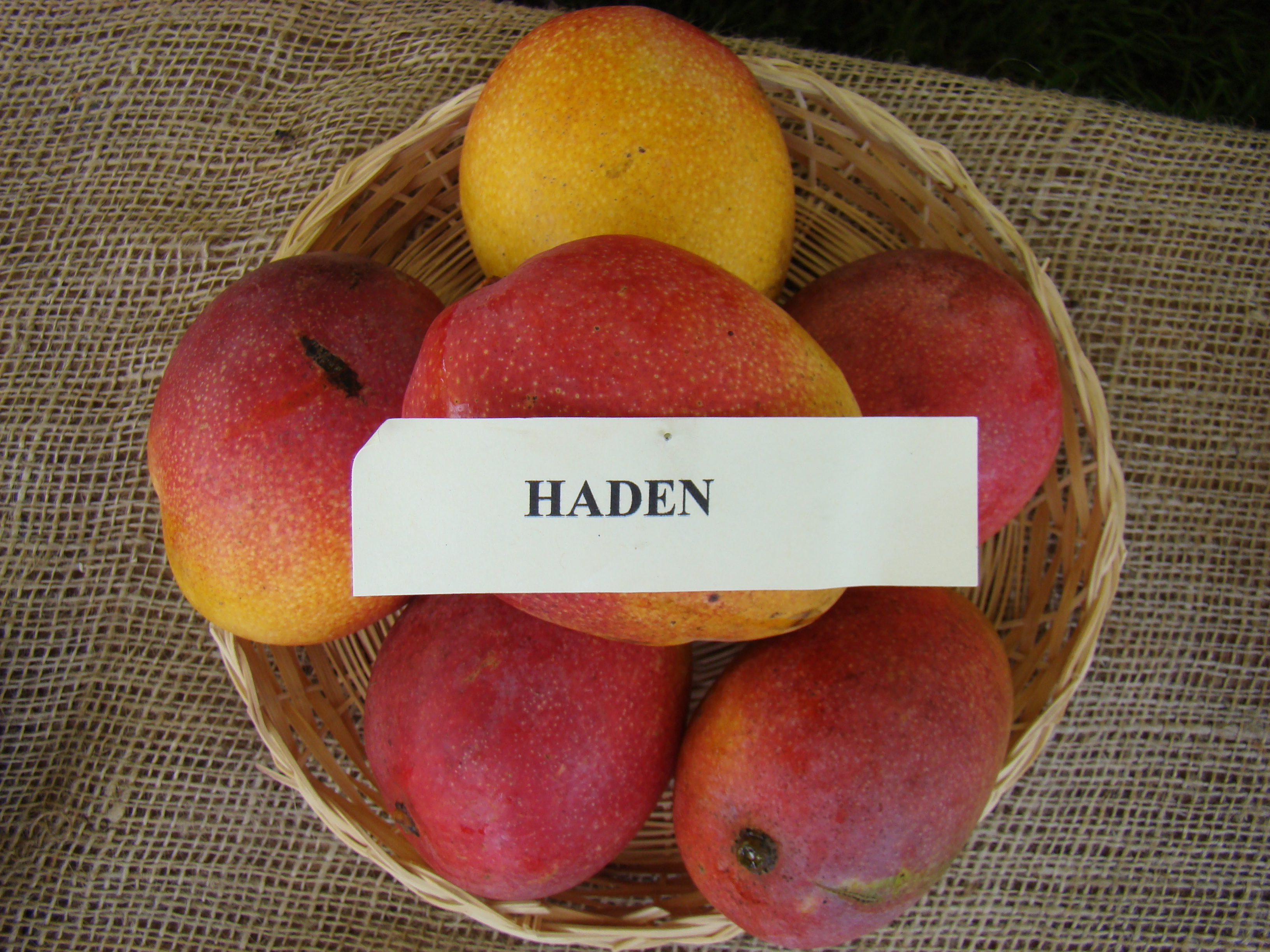 This is a photo of the display of Haden mango at the Redland Summer Fruit Festival, Fruit & Spice Park, Homestead, Florida.